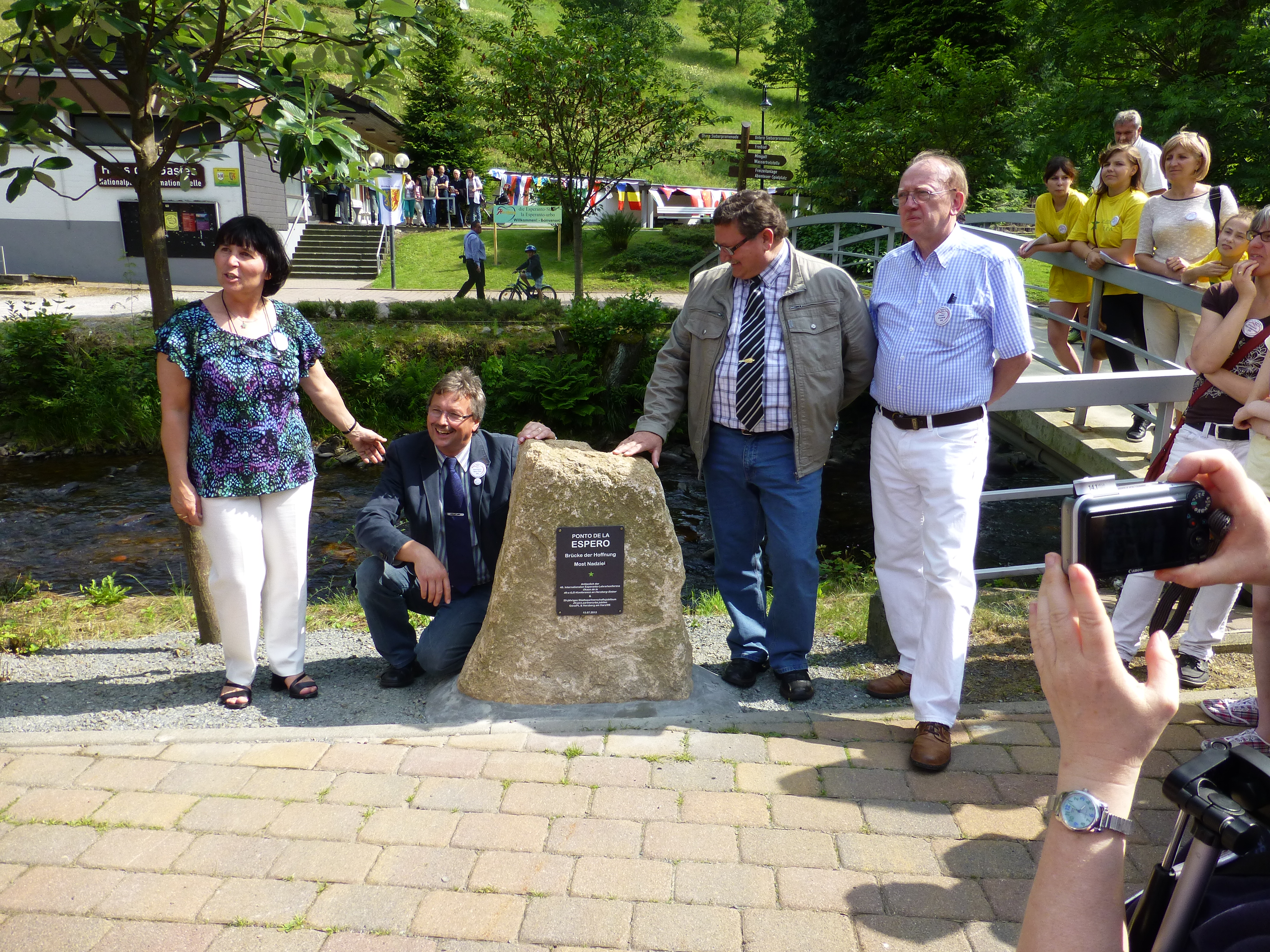 inauguration of the monument and bridge whose name is HOPE, ESPERO (eo) HOFFNUNG (de) NADZIEI (pl) at Sieber next to Herzberg, during world conference of the esperanto-teacher league.